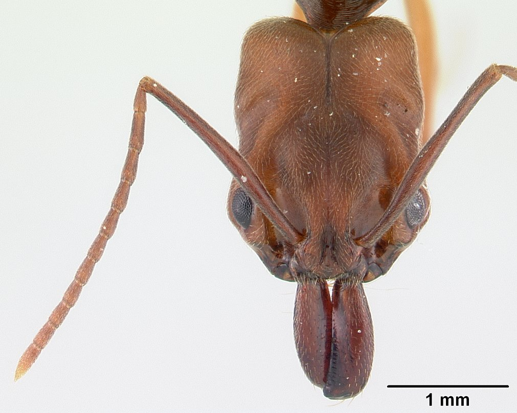 Head view of ant Odontomachus ruginodis specimen iccdrs0013038.